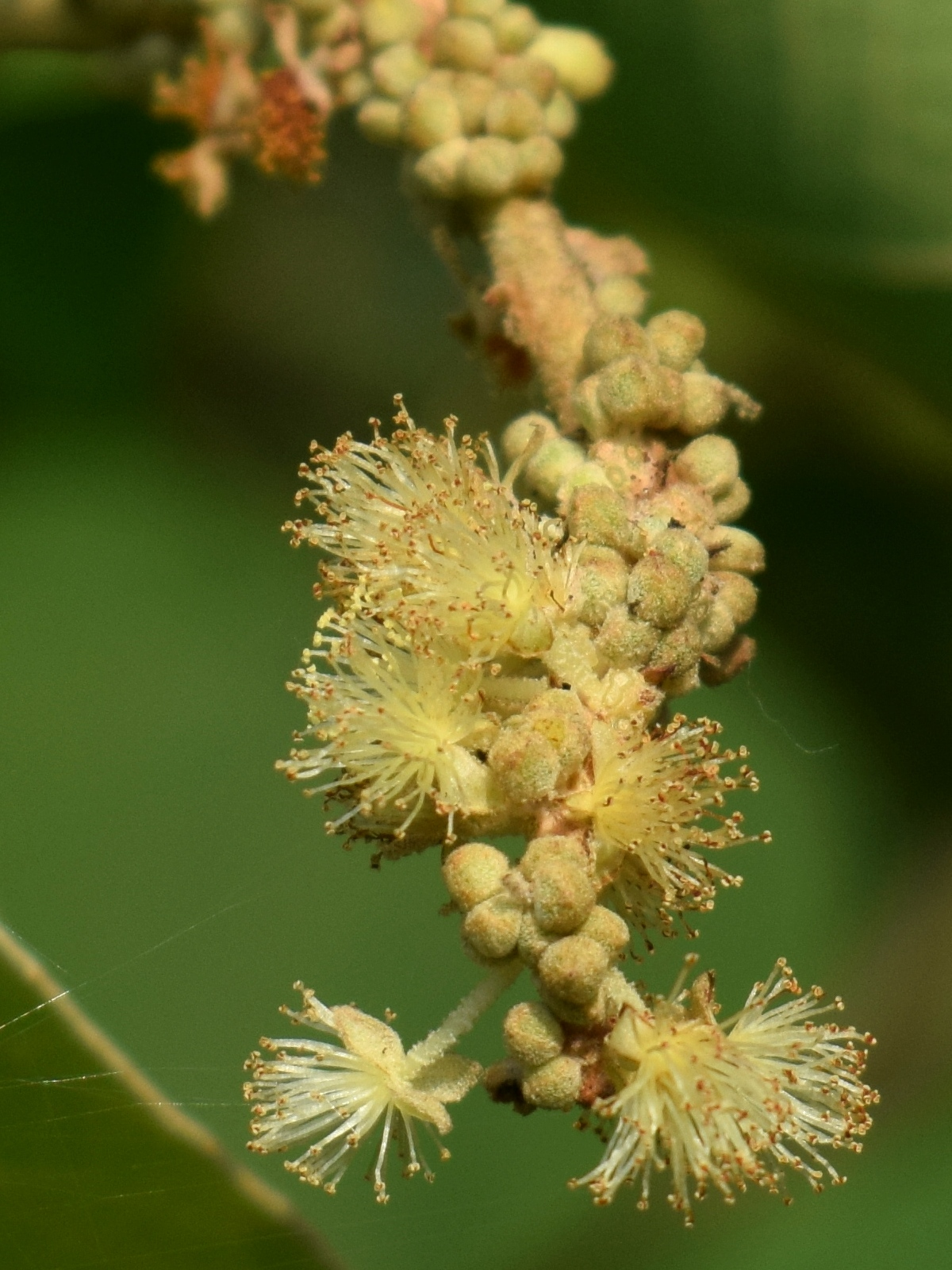 Mallotus molissimus; staminate panicle. From Bogor, West Java, Indonesia.